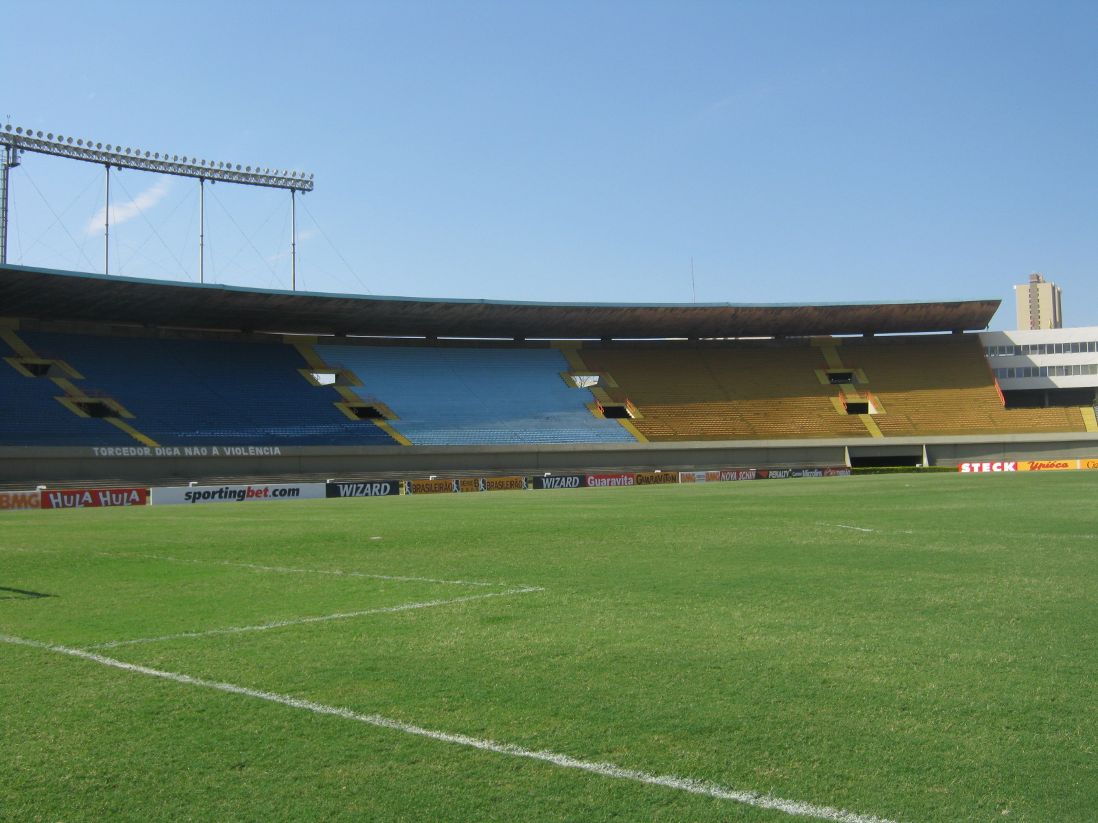 Estádio Serra Dourada in Goiania, Brazil